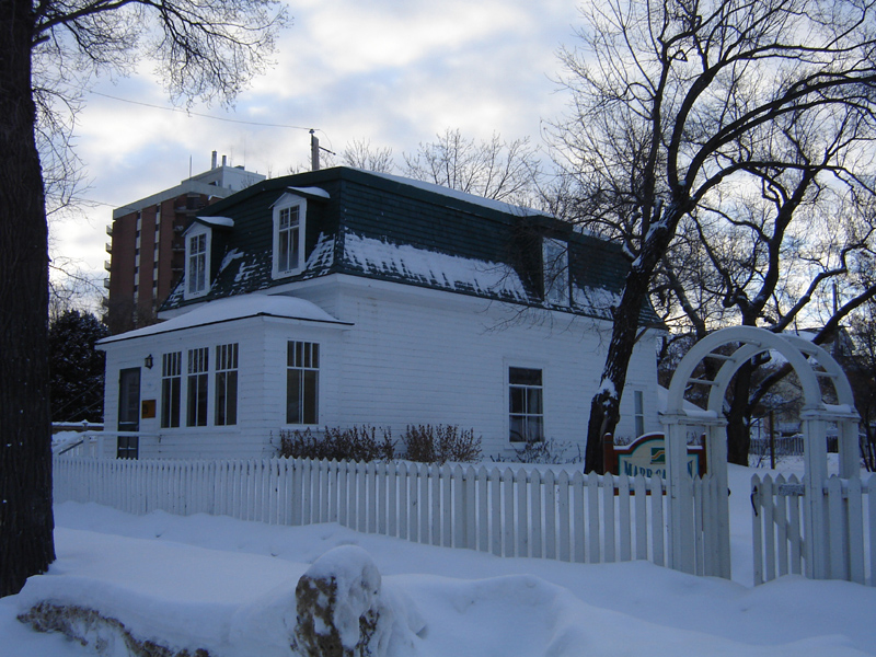 Saskatoon Heritage Society Protected Blocks and Houses Marr Residence Nutana, Nutana SDA, Saskatoon, Saskatchewan, Canada